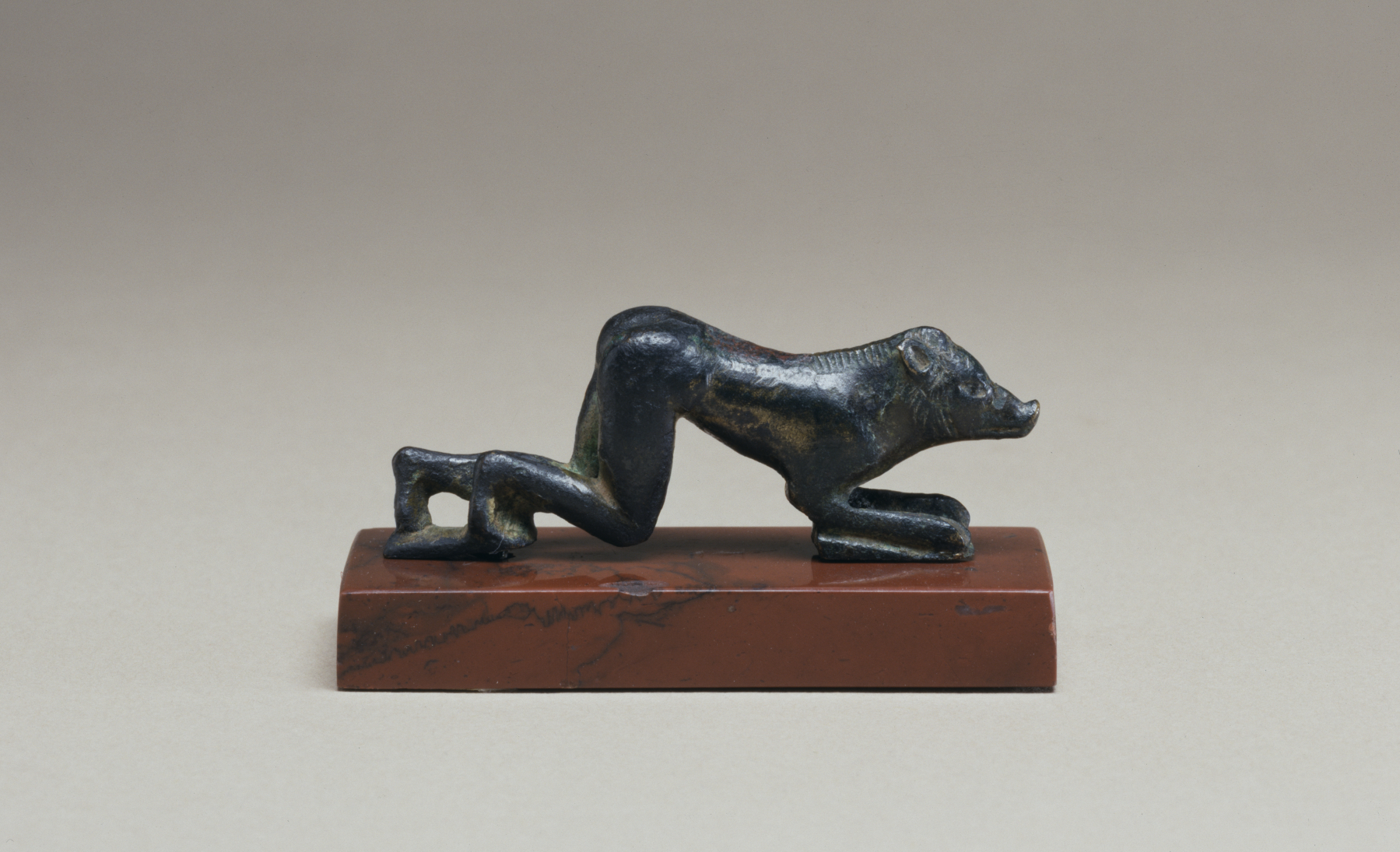 This figure, part man and part pig, is one of Odysseus' companions, who were turned into swine by the sorceress Circe in the epic poem "The Odyssey." The shape of the plaques under the feet suggests that the creature was made to be attached to a curved surface, such as the cover of a small bronze vessel.